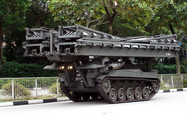 AMX-13 Armoured Launched Bridge (ALB). Mobile Column photo taken on National Day Parade, 2005.